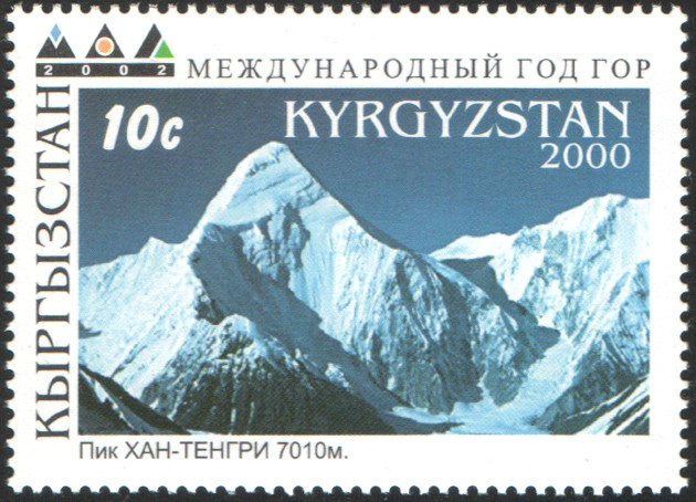 Stamp of Kyrgyzstan, 2000.